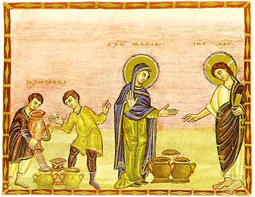 The Marriage at Cana